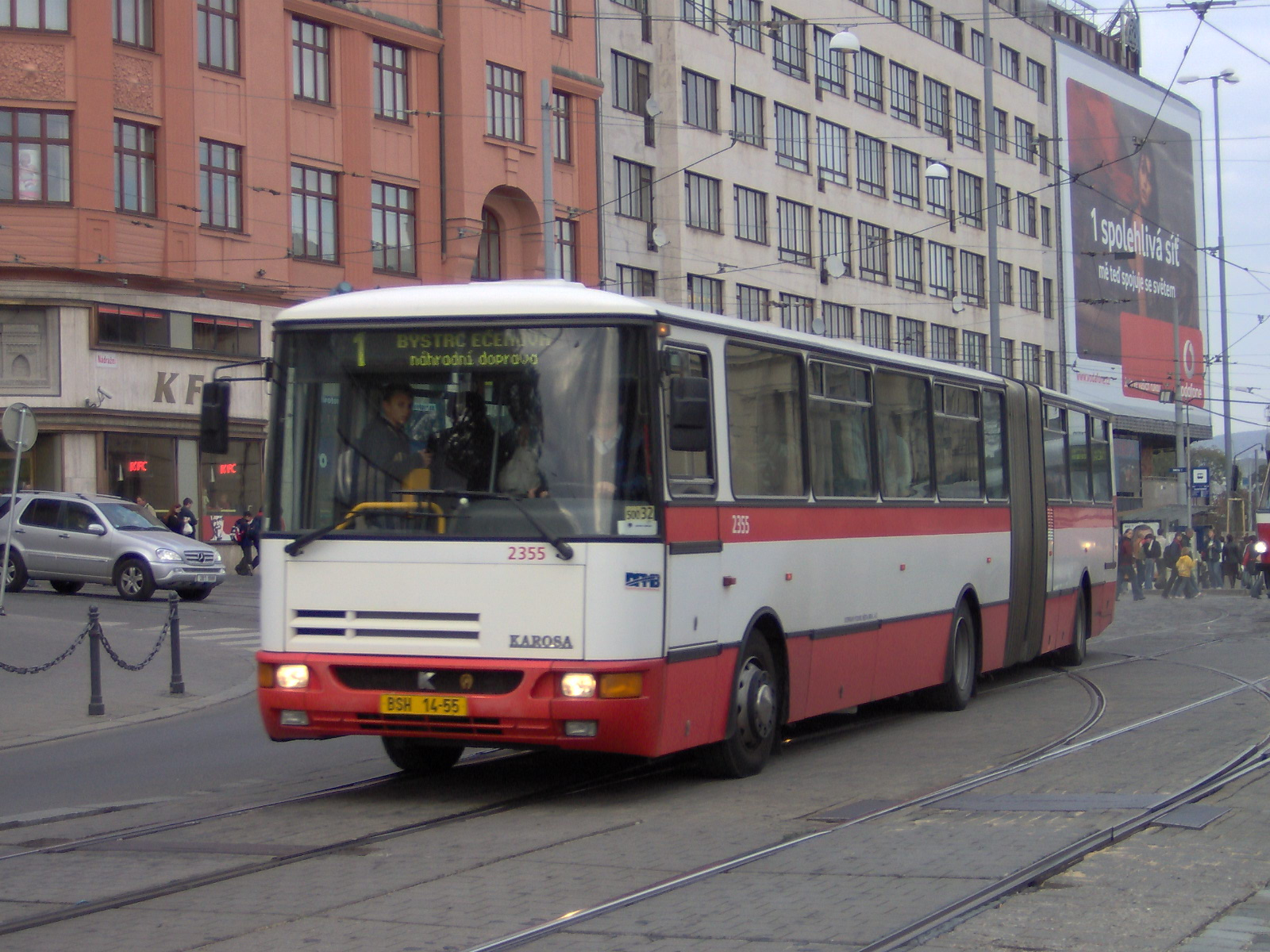 Karosa B 941 bus in Brno